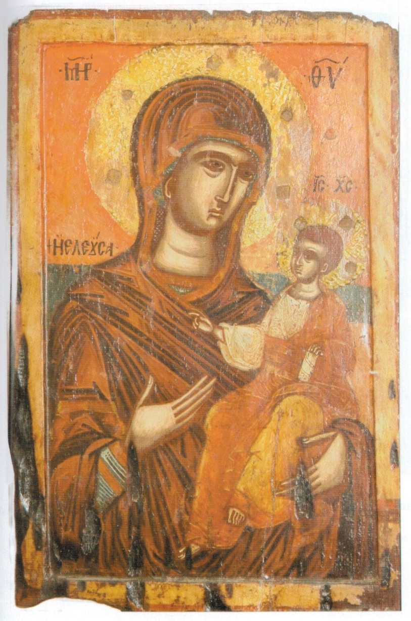 Saint Mary Eleusa Icon in Slepche Monastery, Second Quarter of 17th Century